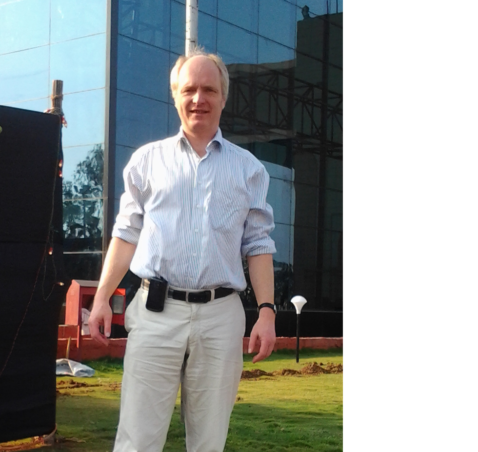 Stefan Schuster in Pune (India) in 2012